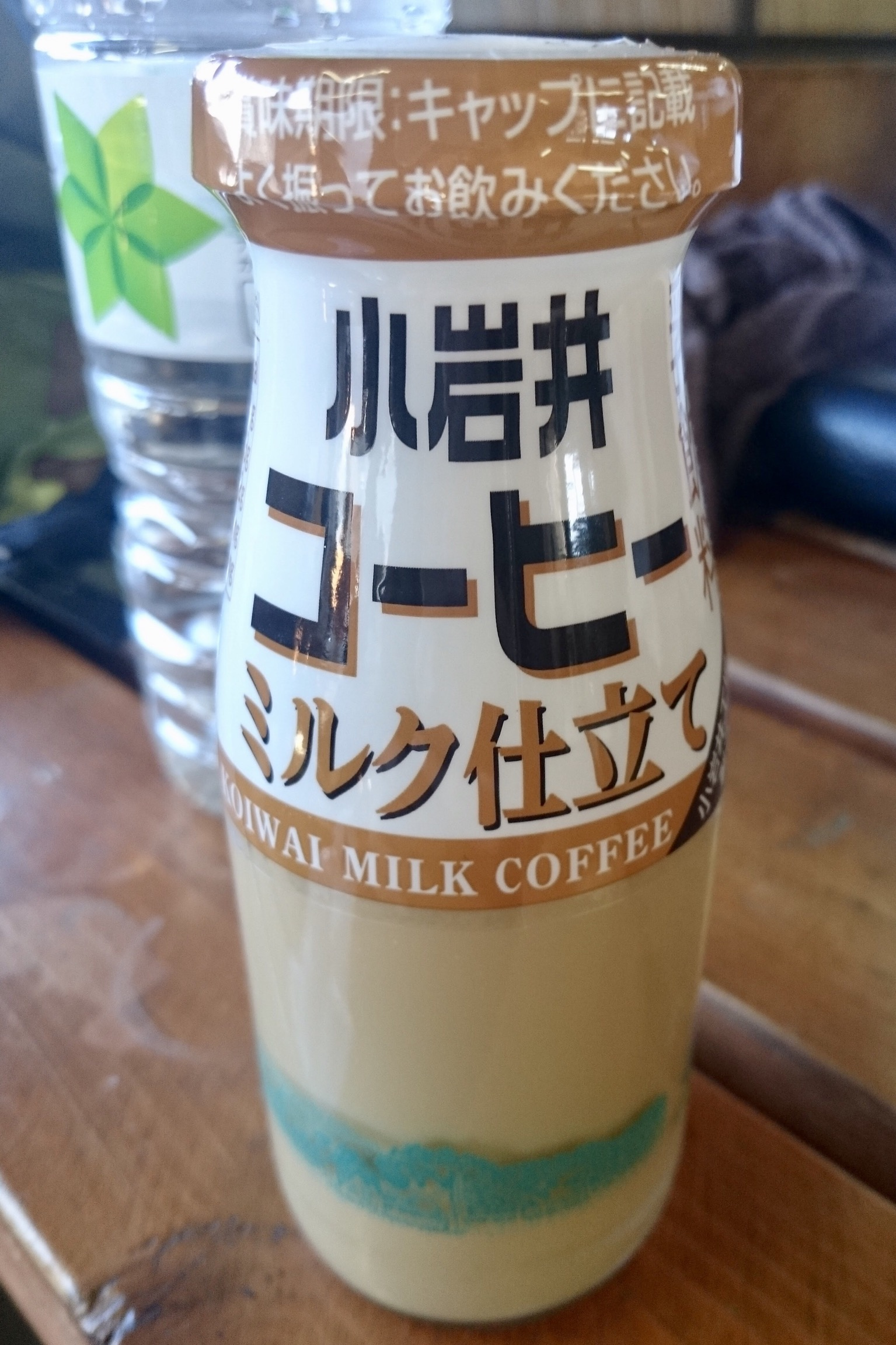 Koiwai's coffee Аҧсшәа: 小岩井コーヒー